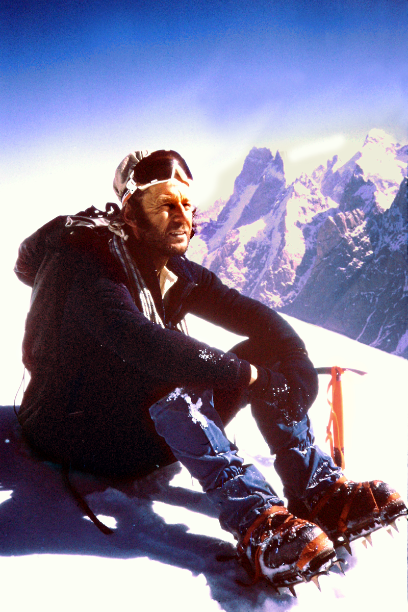 Don Morrison (deceased) on the 1975 Yorkshire Karakoram expedition. This photo was taken by Ted Howard, high above the Ho Bluk base camp, Karakoram, Himalayas, during the first ascent of Pamshe. The peaks in the background are (from left to right) the Ogre; Point 6960; and Latok 1, 2 and 3.